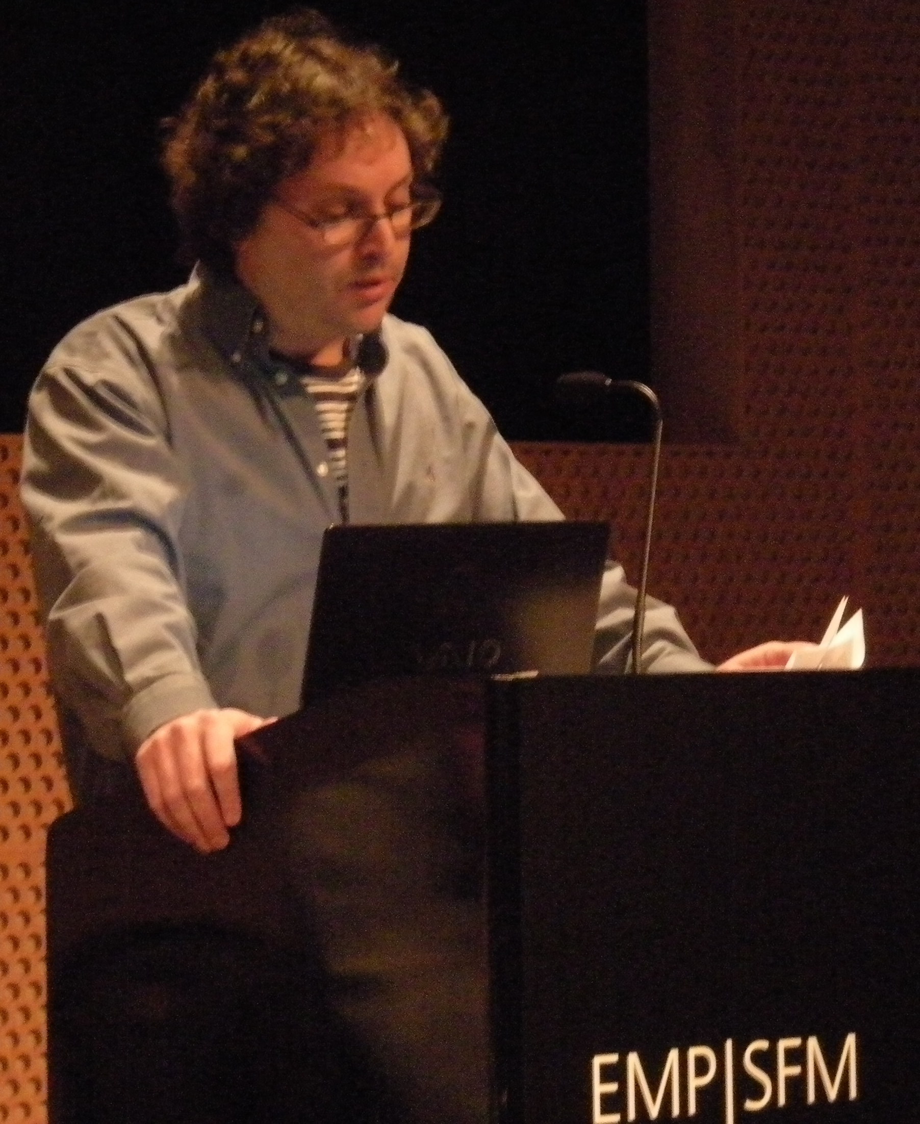 Eric Weisbard speaking as part of the panel "Liminal Soul", 2008 Pop Conference, Experience Music Project (EMP), Seattle, Washington. Weisbard is organizer of the Pop Conference and has edited two volumes of papers from the conference. Former program manager and curator at EMP, he has also been music editor of the Village Voice and senior editor of Spin.